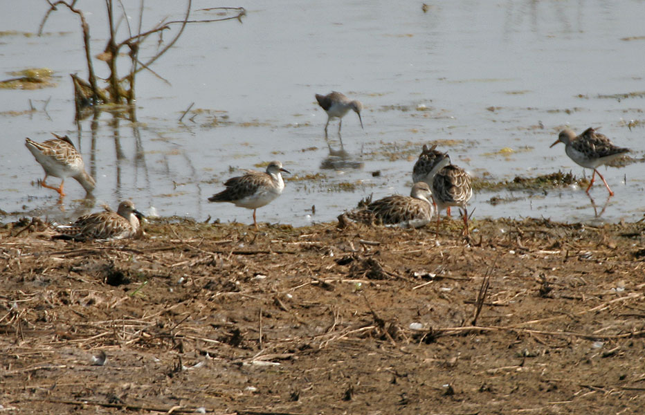 Ruff Philomachus pugnax near Hyderabad, India.